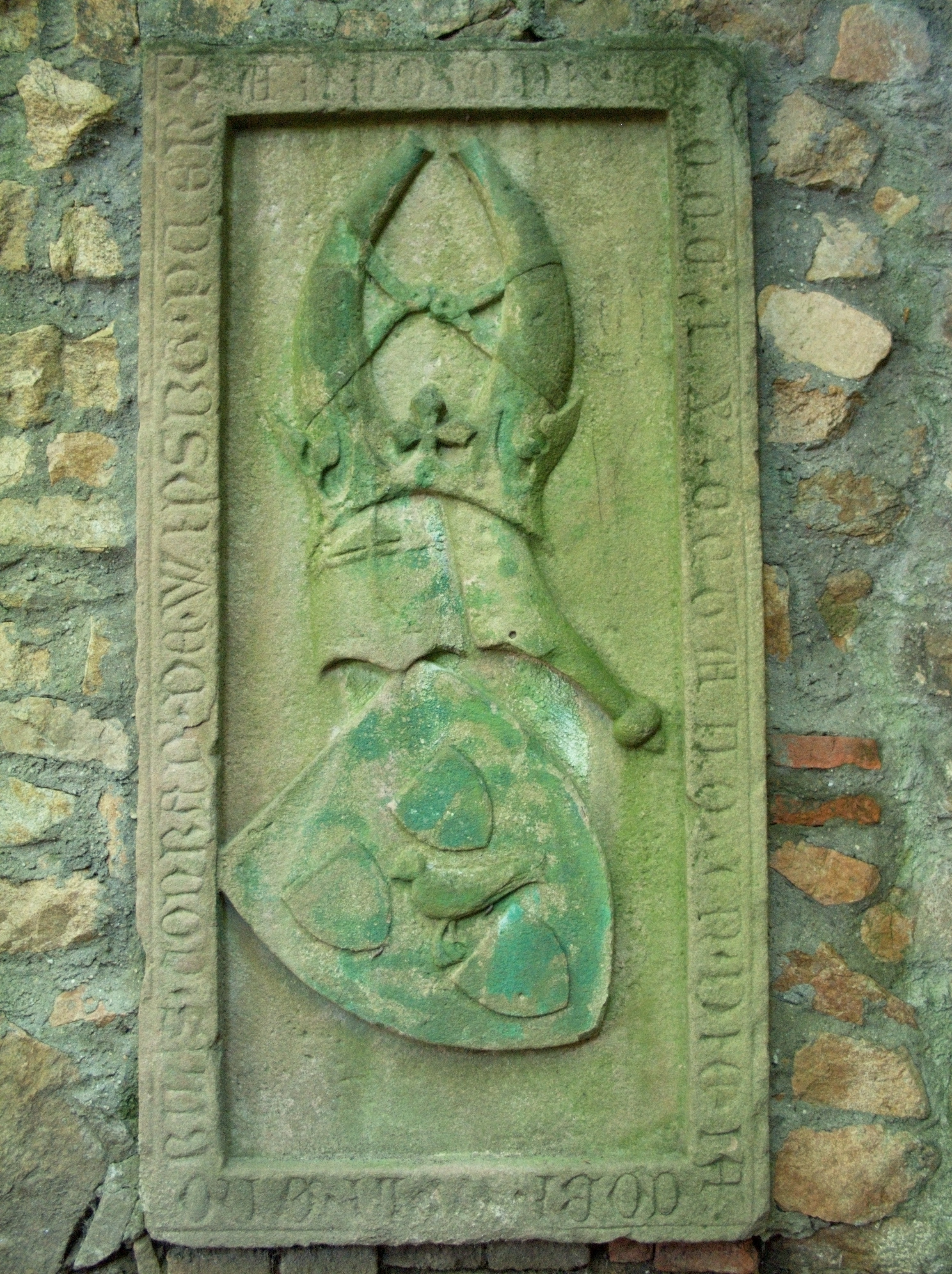 Ruins of the convent church at Heiligenberg near Jugenheim, Bergstraße, Germany. Tomb slab on the inside of the southern wall.